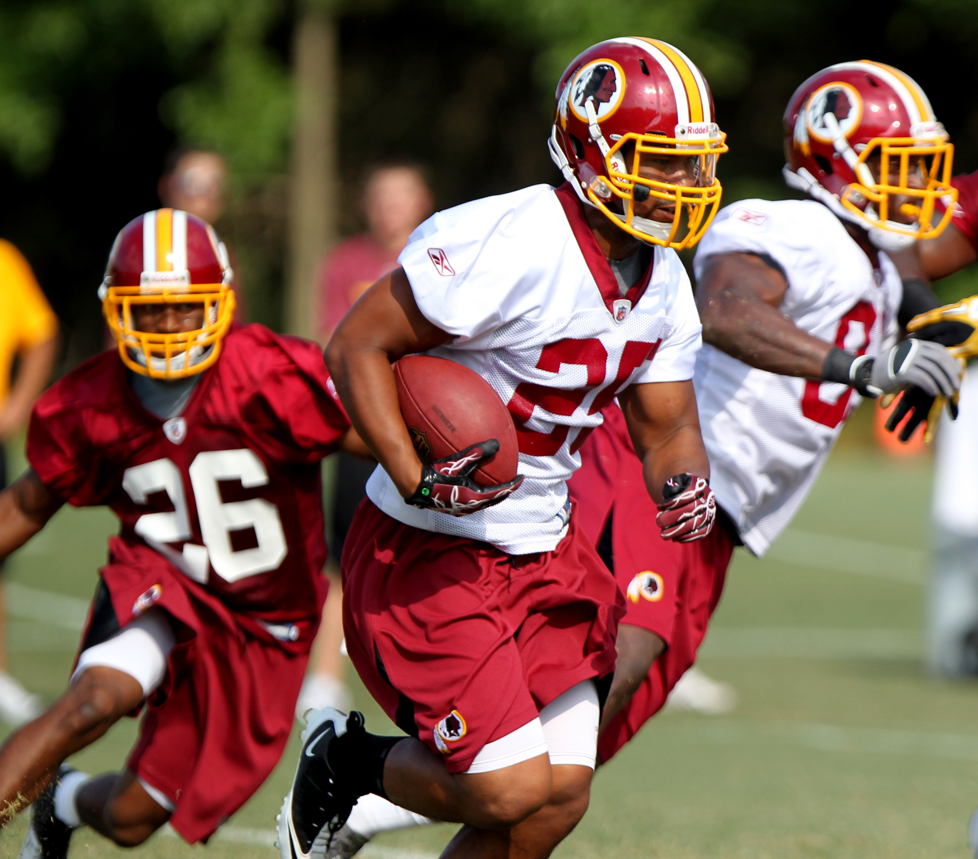 Evan Royster at Washington Redskins Training Camp August 4, 2011